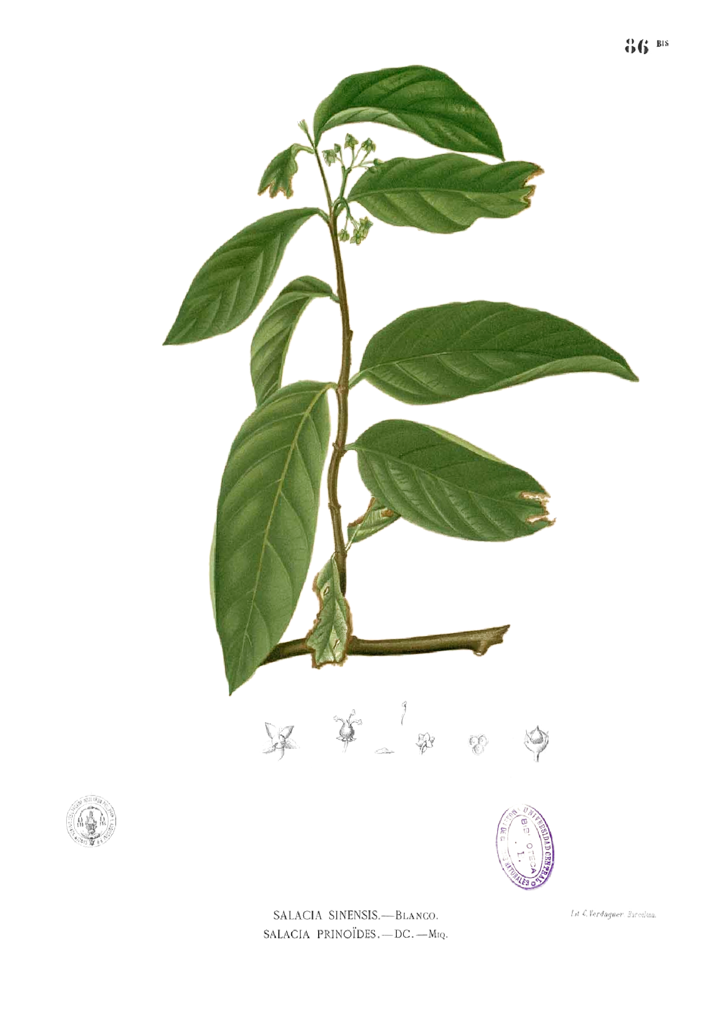 Plate from book Salacia prinoides